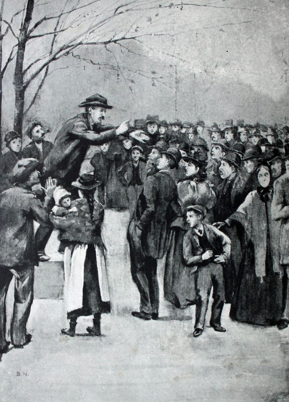 This illustration was published in the Windsor Magazine to accompany an article 'Socialist Leaders of Today'